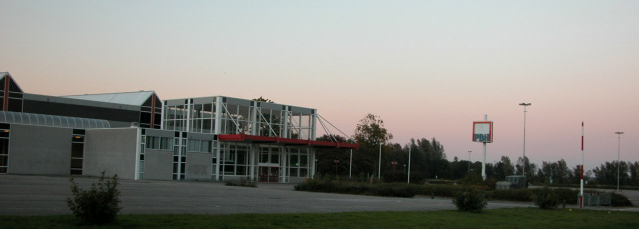 Prins Bernhardhoeve exhibition complex in Zuidlaren, the Netherlands, Europe. Photo made by Chincheta, posted on Wikimedia Commons at 18:02, 17 Oct 2005 (UTC).